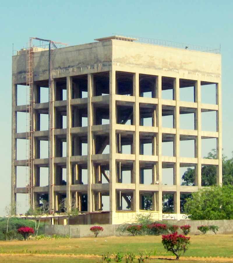 Water tank at Gulshan-e-Hadeed. Gulshan-e-Hadeed or Gulshan-e-Hadid (Sindhi: گلشن حديد ) (meaning Garden of Iron) is a neighborhood of Bin Qasim Town, Karachi, Sindh, Pakistan (wikipedia)